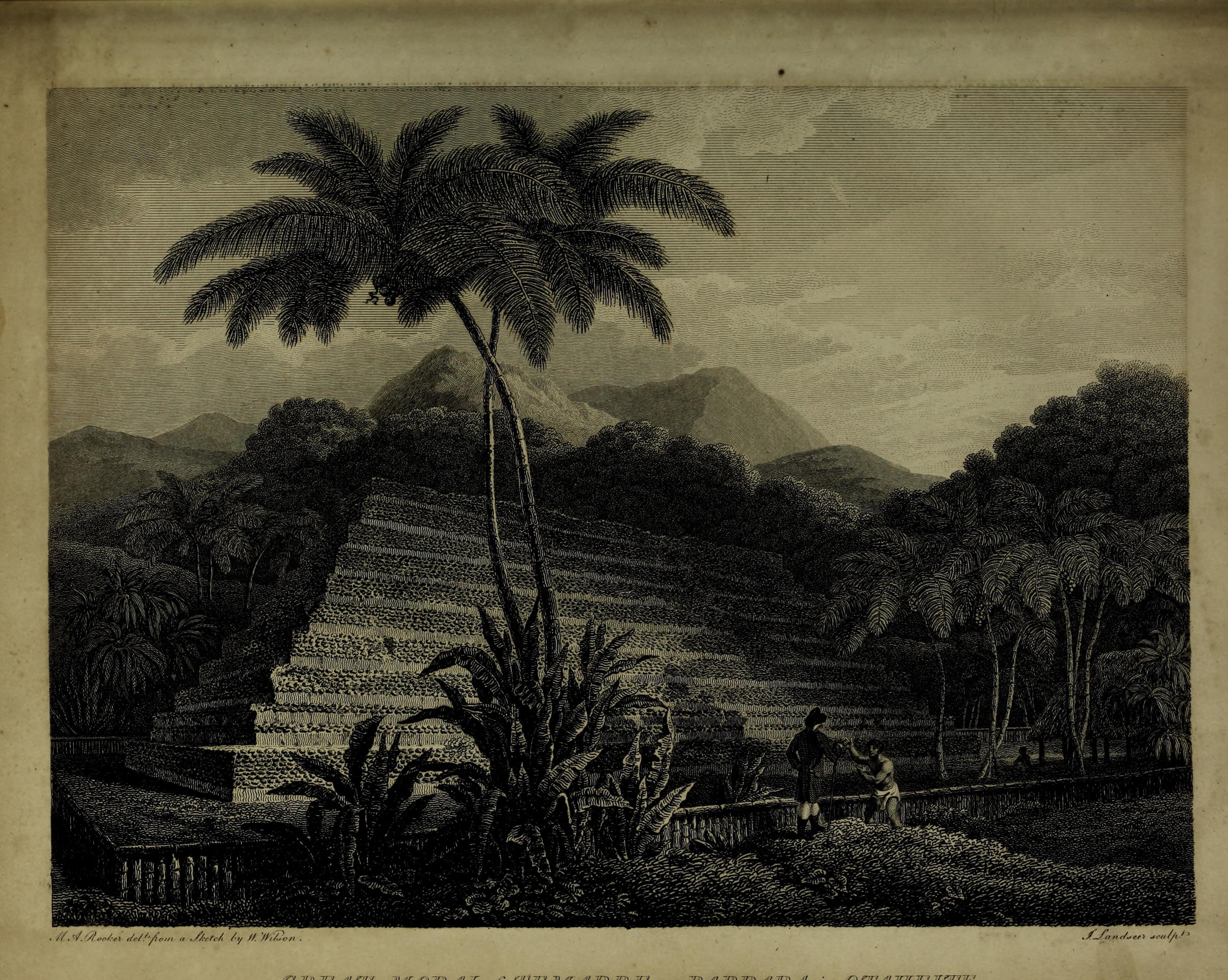 Great Morai of Temarre at Pappara in Otaheite. View of a Tahitian temple, a European man with native guide beside a tree in the foreground, mountains in the background; illustration to Wilson's 'A Missionary Voyage to the Southern Pacific Ocean'. 1799